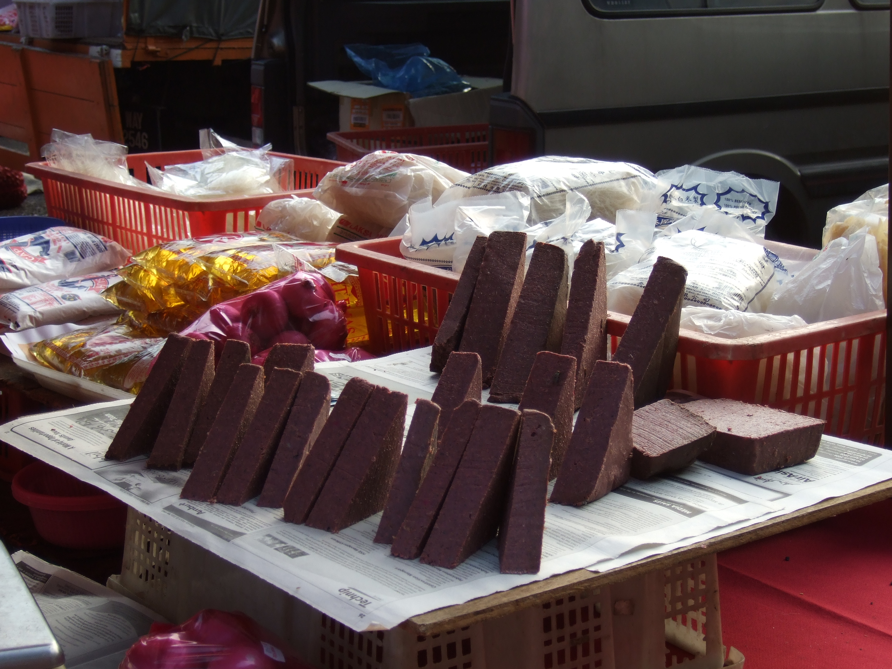 Belacan, a type shrimp paste, being sold in a market in Malaysia.